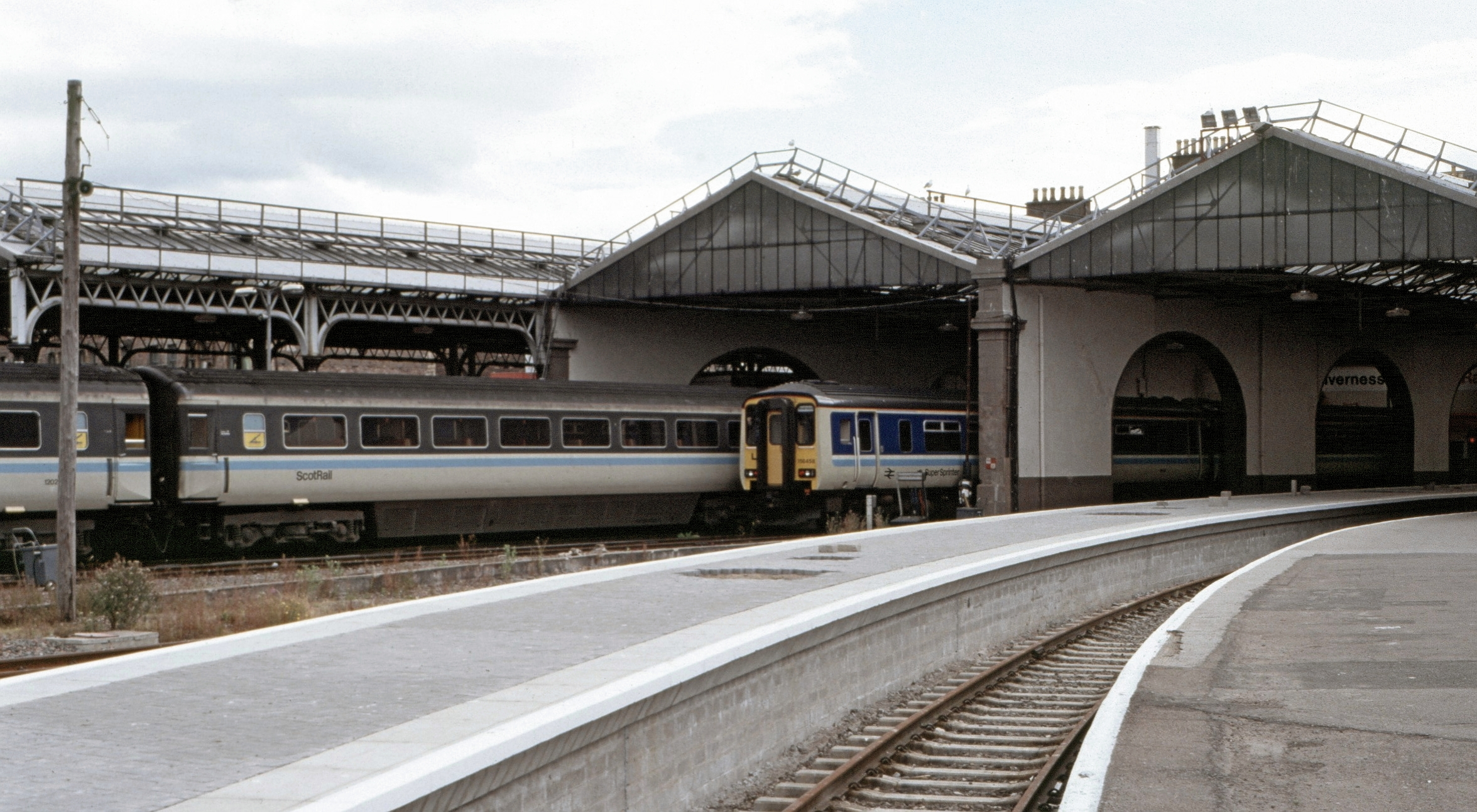 Inverness station